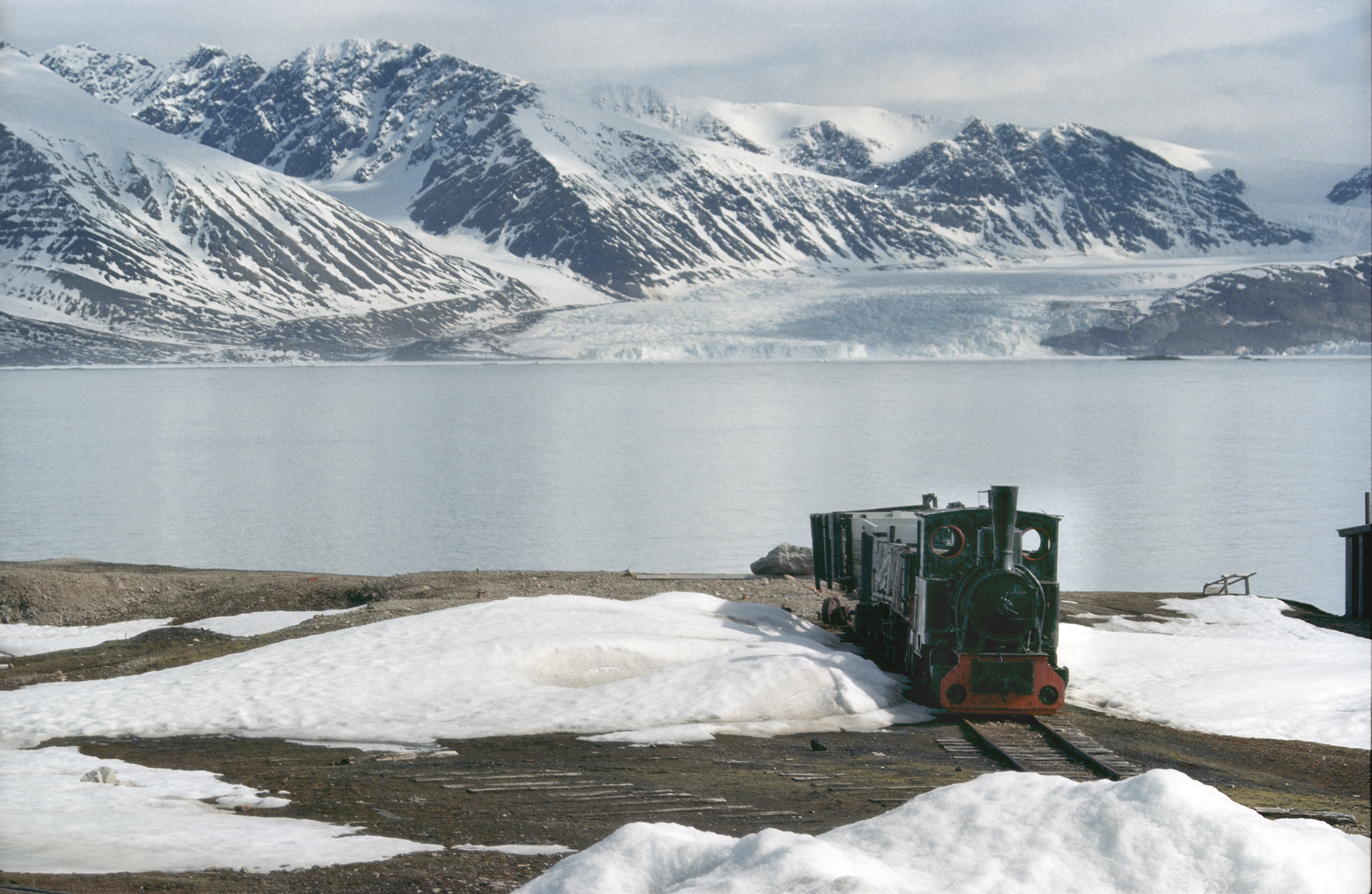 Svalbard, Ny-Ålesund, the old train